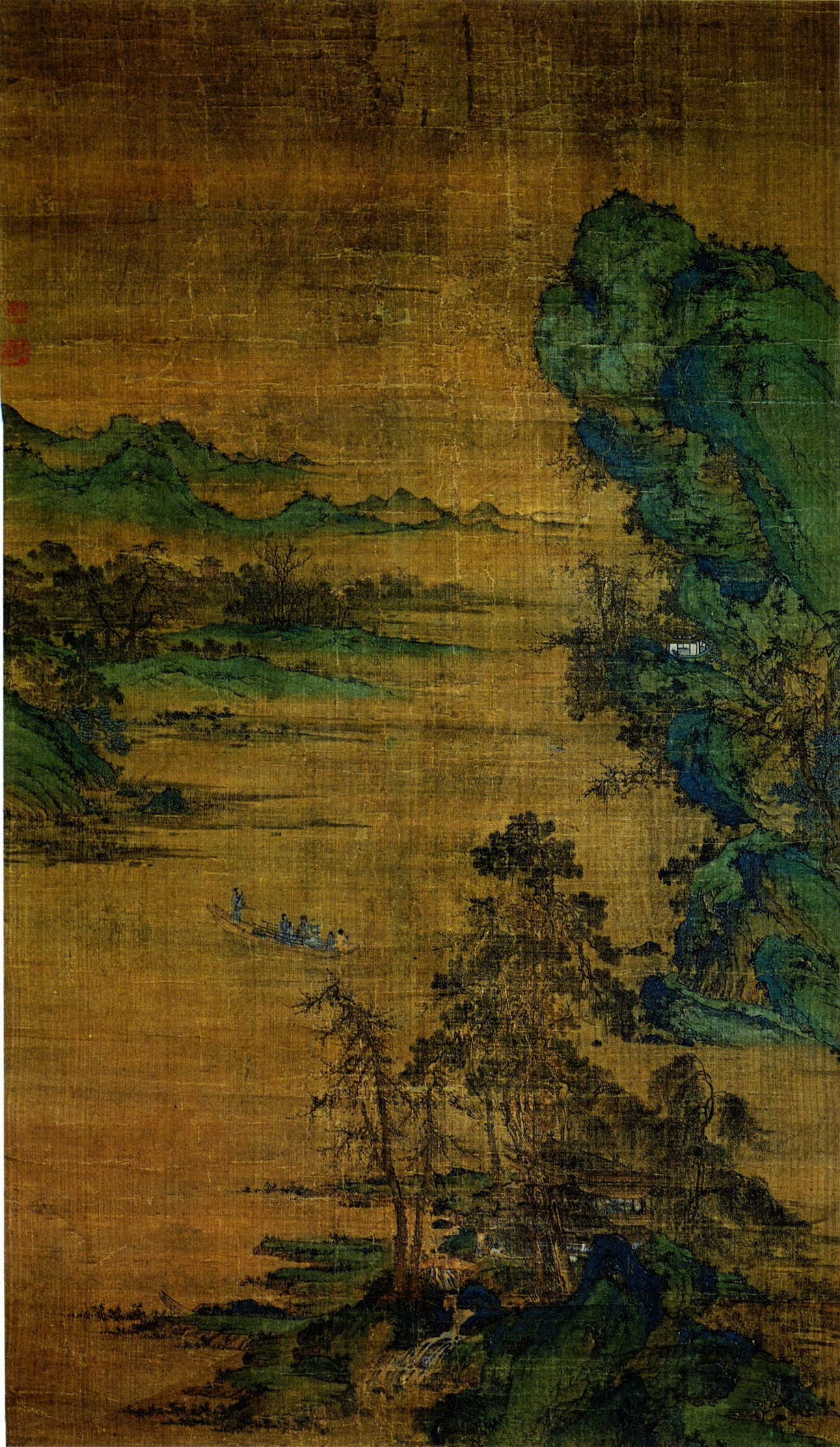 Red Cliff, hanging scroll, Color on silk, 160.5 x 95.7 cm. Located at the Chinese Cultural Transmission Coordination Center Beijing. A more common alternate name is Green Landscape.